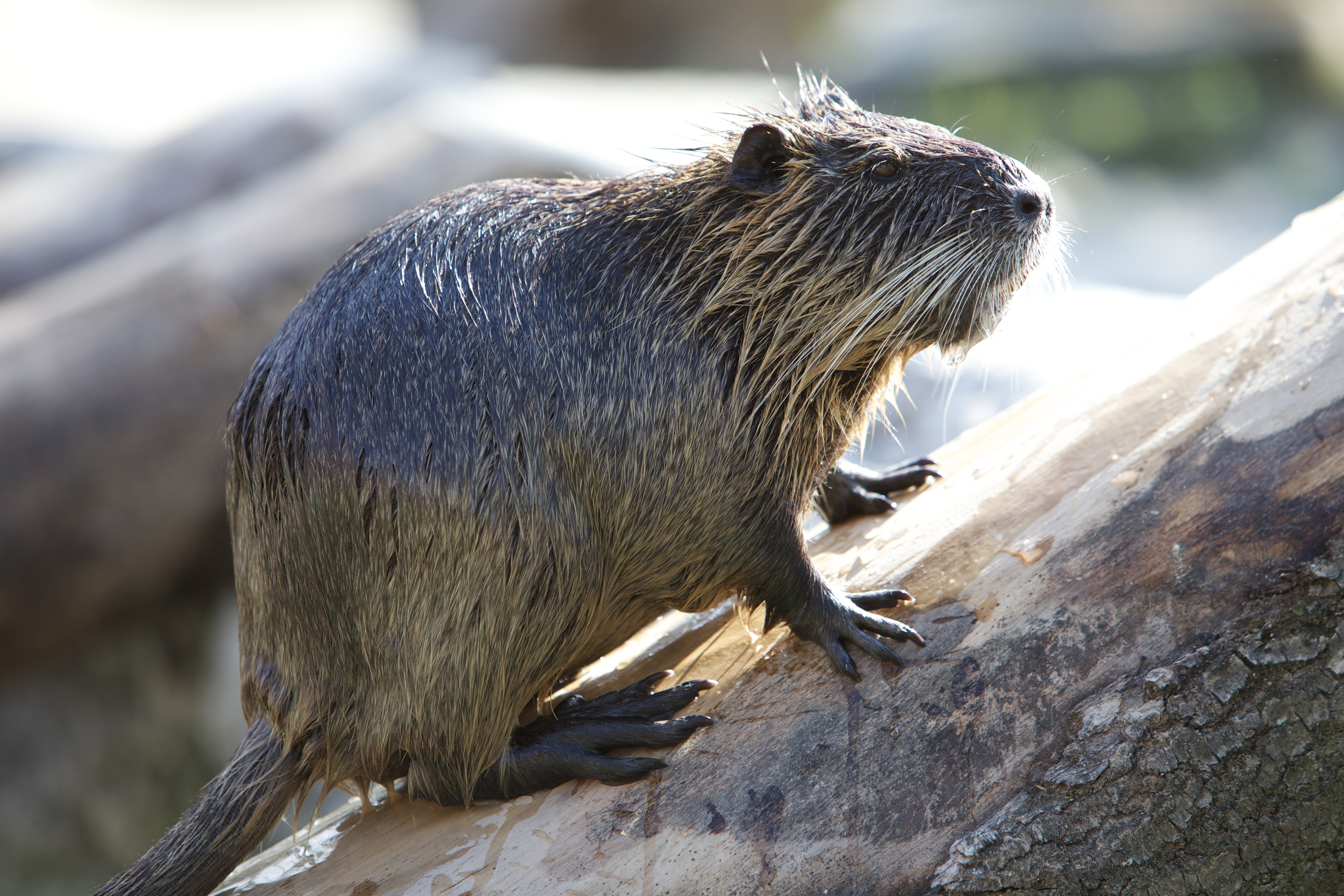 Nutria